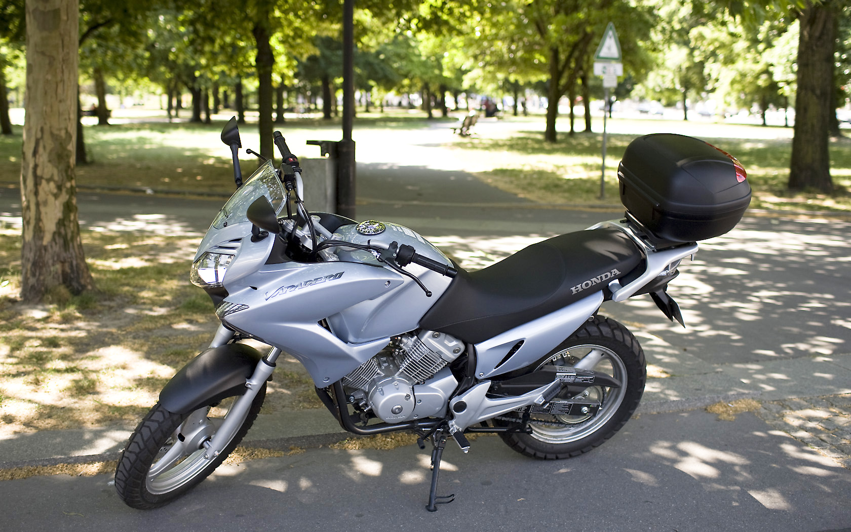 Honda Varadero 125 Modell 2007, Topcase is aditional Equipment